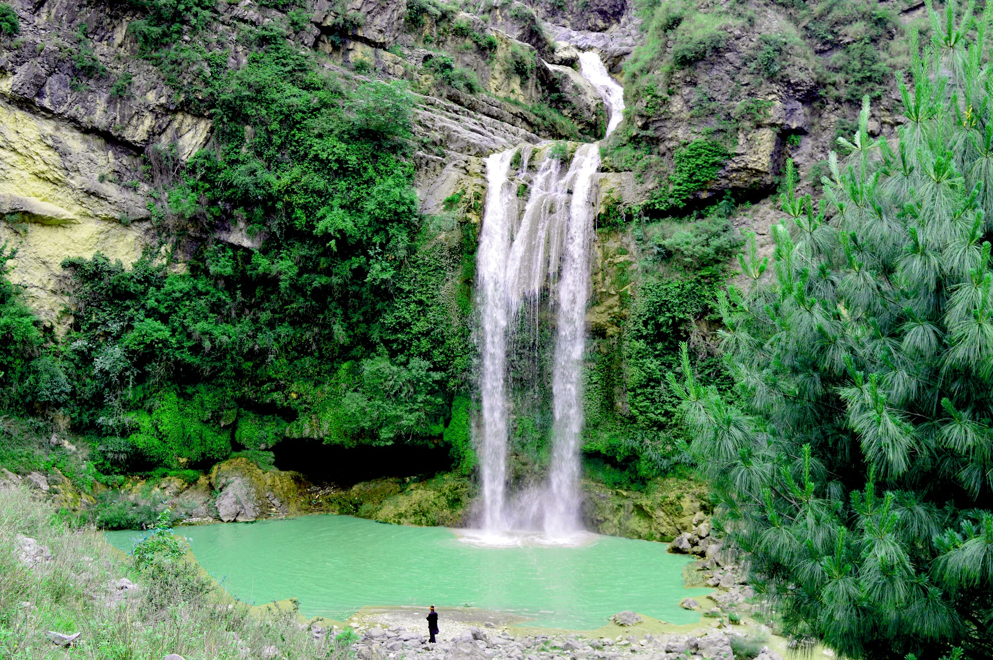 Sajikot Waterfall, water fall in tehsil havelian, amazing water fall in abbottabad, water falls in northern areas, tourism in abbottabad, most beautiful place in district abbottabad